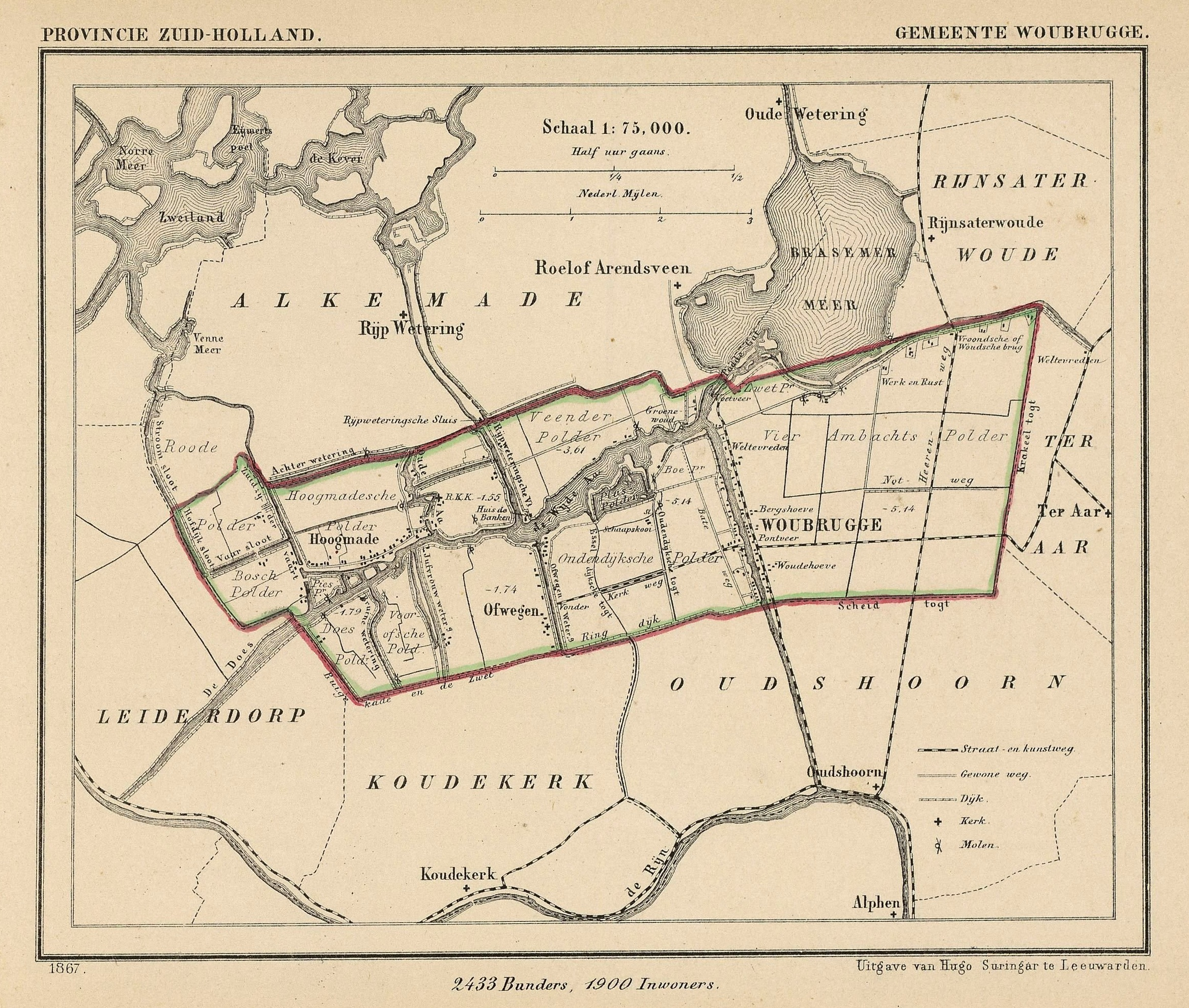 Map from 1867 of the former municipality of Woubrugge (prov. South Holland, Netherlands). In 1991 Woubrugge merged with Leimuiden and Rijnsaterwoude to become the new municipality Jacobswoude; Jacobswoude existed for only 18 years and merged in 2009 with the municipality of Alkemade to the present municipality of Kaag en Braassem.